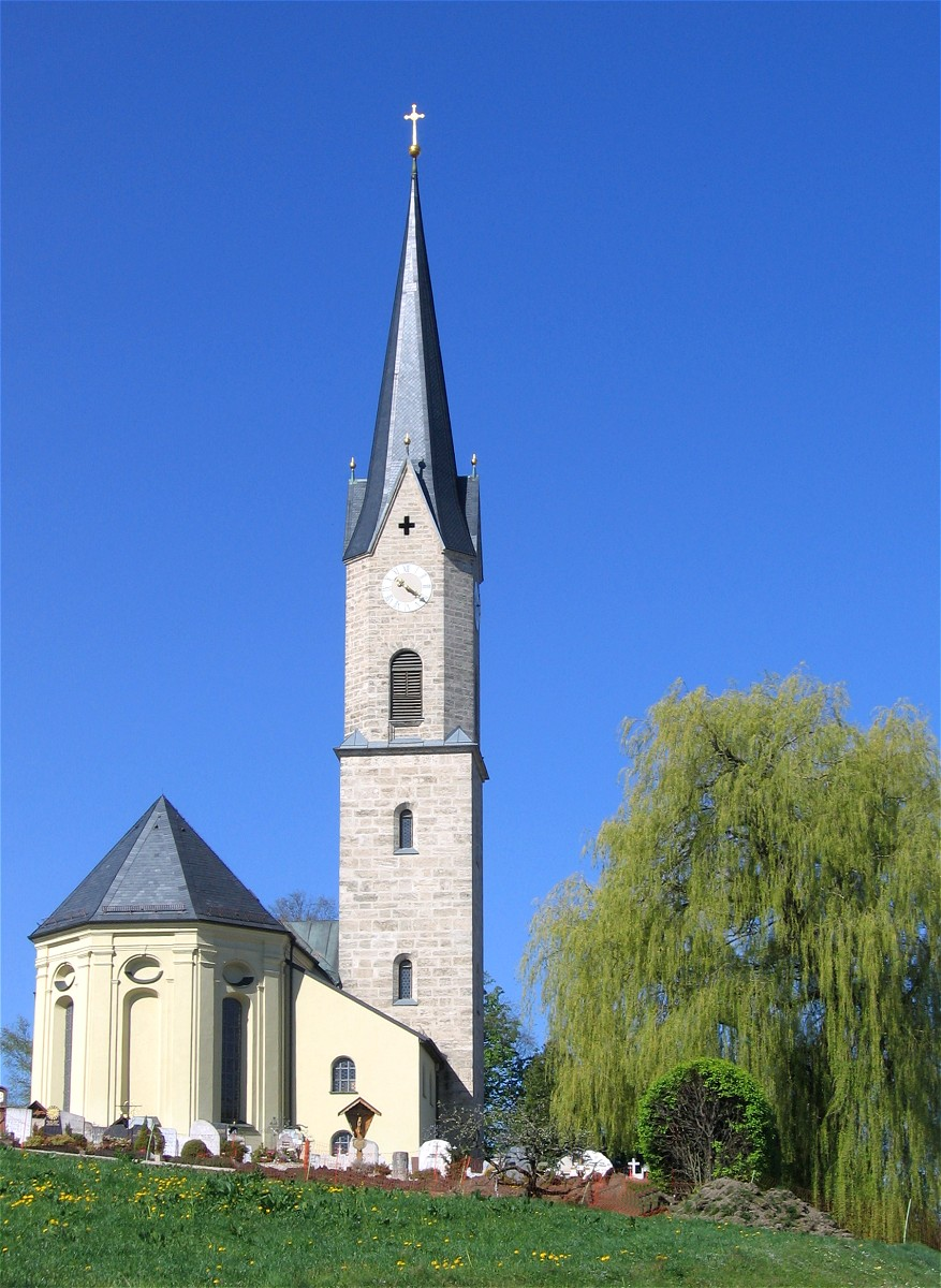 Irschenberg, St John the Baptist Parish Church from east.